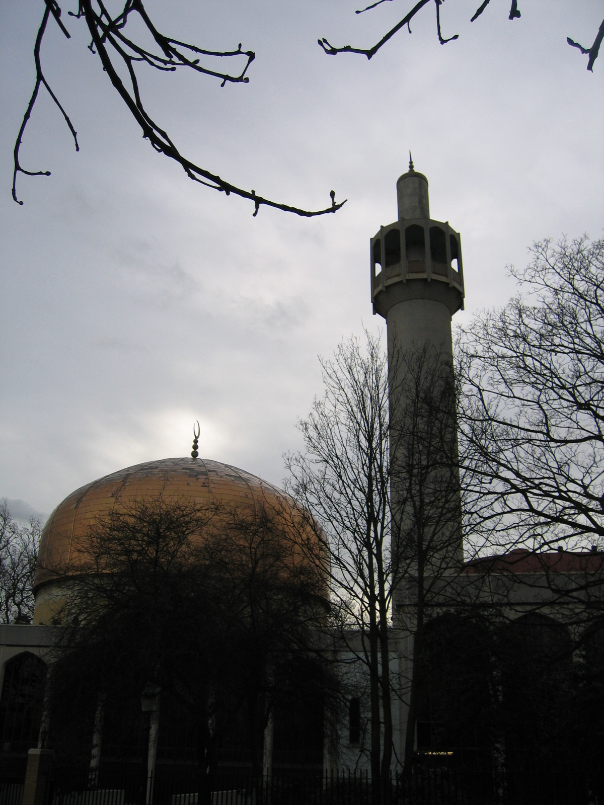 Picture of the London Central Mosque from the sidewalk right outside of Regents Park in London, England